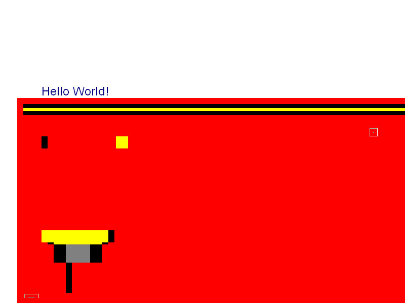 The result for Acid2 in Internet Explorer 6